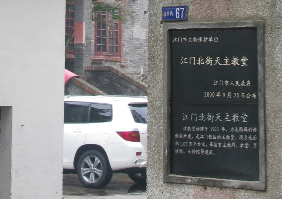 Plague at entry to Immaculate Heart of Mary Former Cathedral